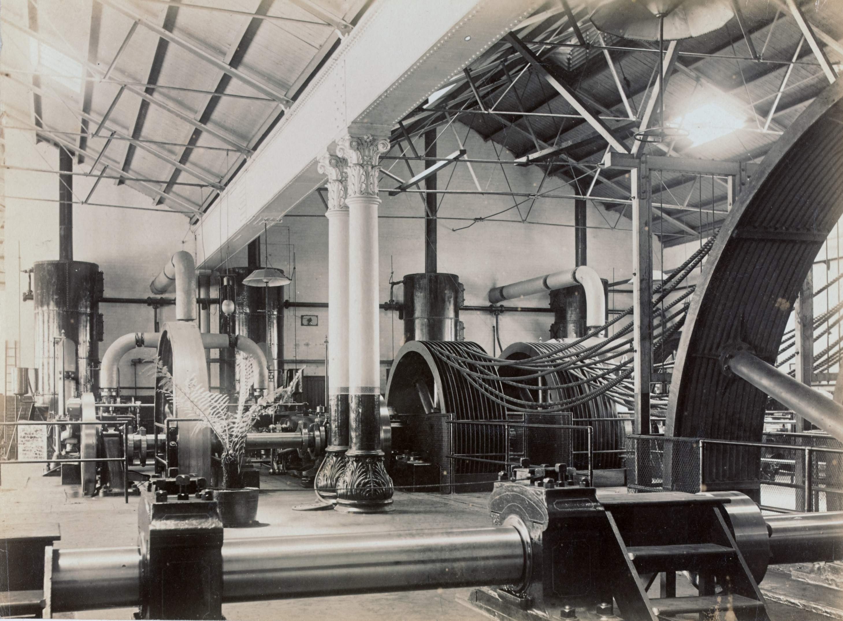 Engine House, Melbourne Tramway and Omnibus Company, 1898. Shows the cable winding machinery for the Melbourne cable car system, Victoria, Australia. From the photo album of John Garibaldi Roberts, Manager of the MTOC.